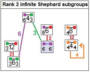 Subgroup chart for infinite Shephard groups of rank 2, incomplete, only includes mirror removals